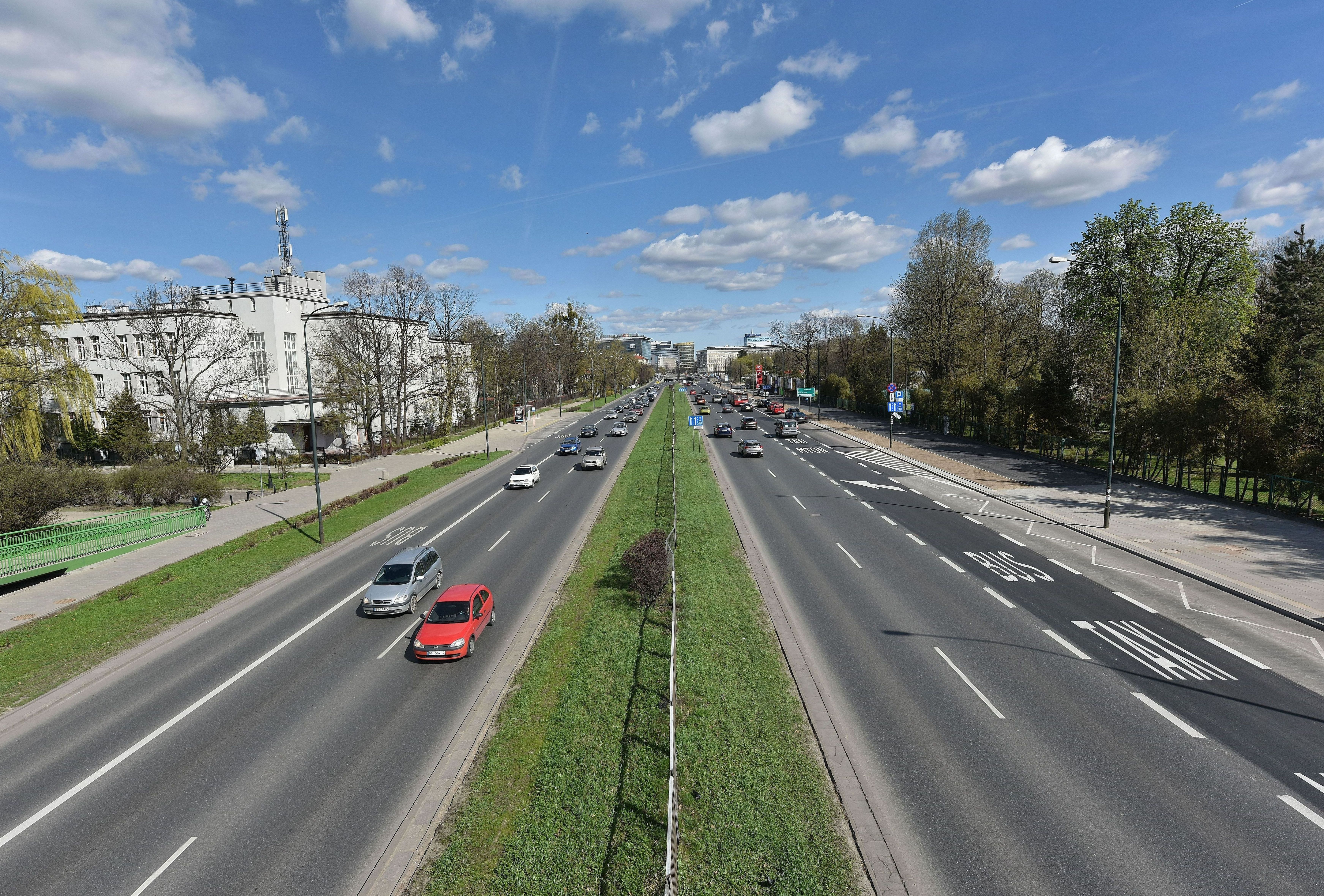 Wawelska Street in Warsaw